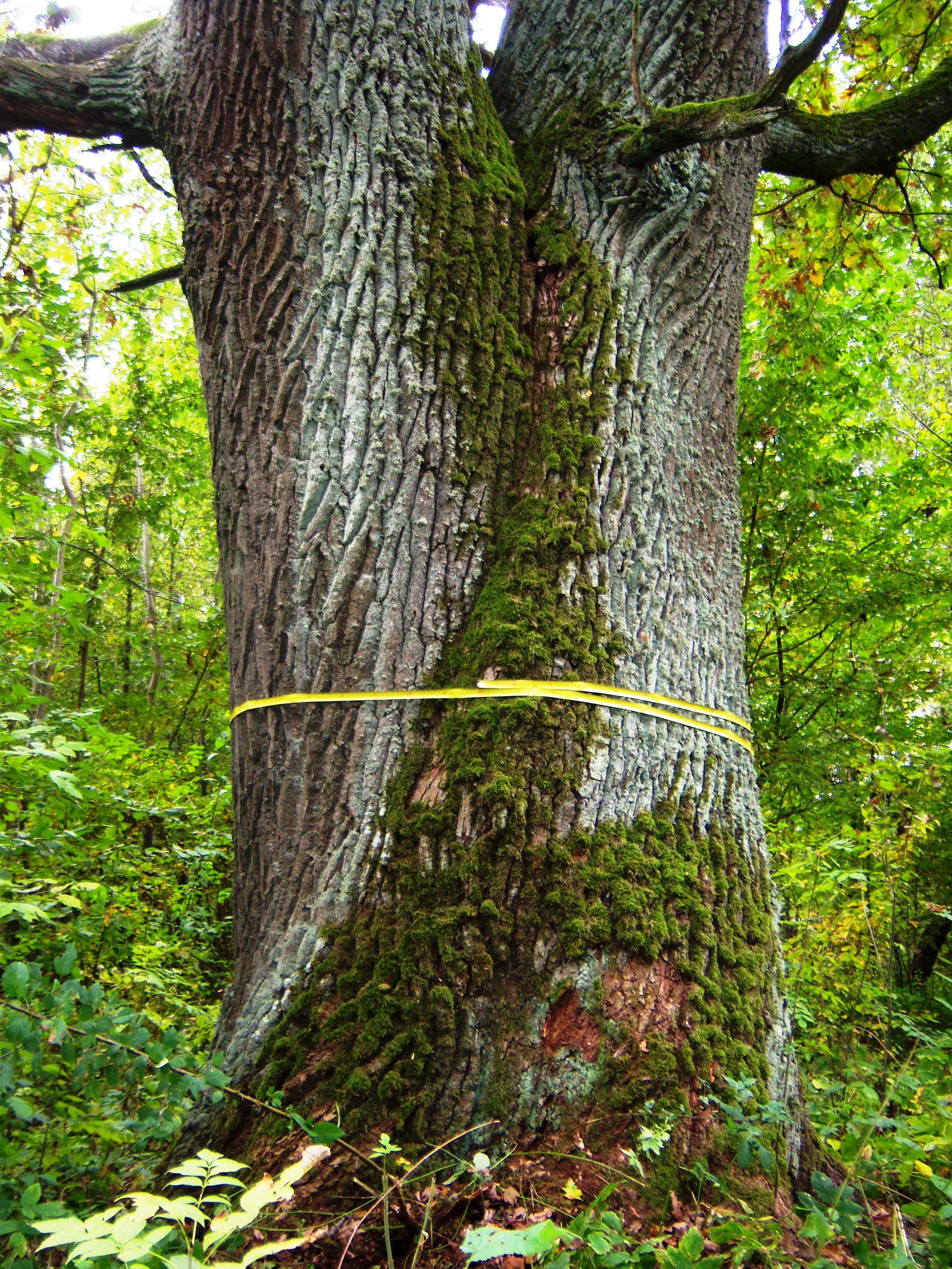 Mighty Oak trunk, near Kačergiai, Kaunas district, Lithuania